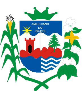 flag of the municipality of Americano do Brasil